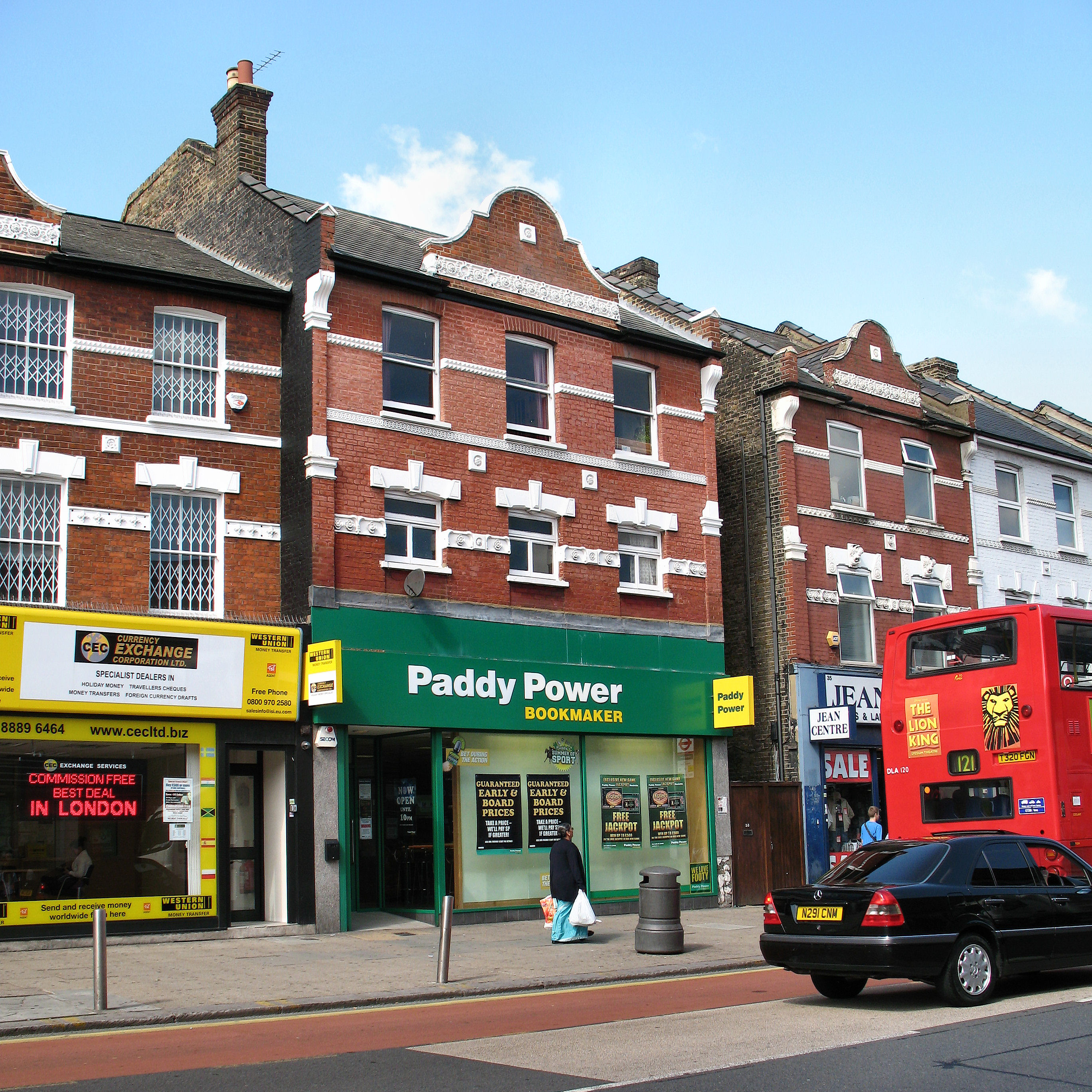 25 July 2009. Paddy Power, 33 High Road, Wood Green, London N22 6BH. One of the Betting Shops set. _______________________________________________________